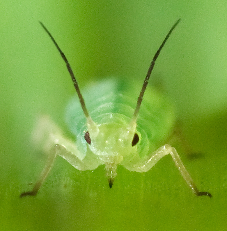 USDA-ARS image# D2459-1 This image or file is a work of a United States Department of Agriculture employee, taken or made as part of that person's official duties. As a work of the U.S. federal government, the image is in the public domain. "Close-up of greenbug aphid, Schizaphis graminum, showing the piercing-sucking mouthparts it uses to feed and inject virus into plants."